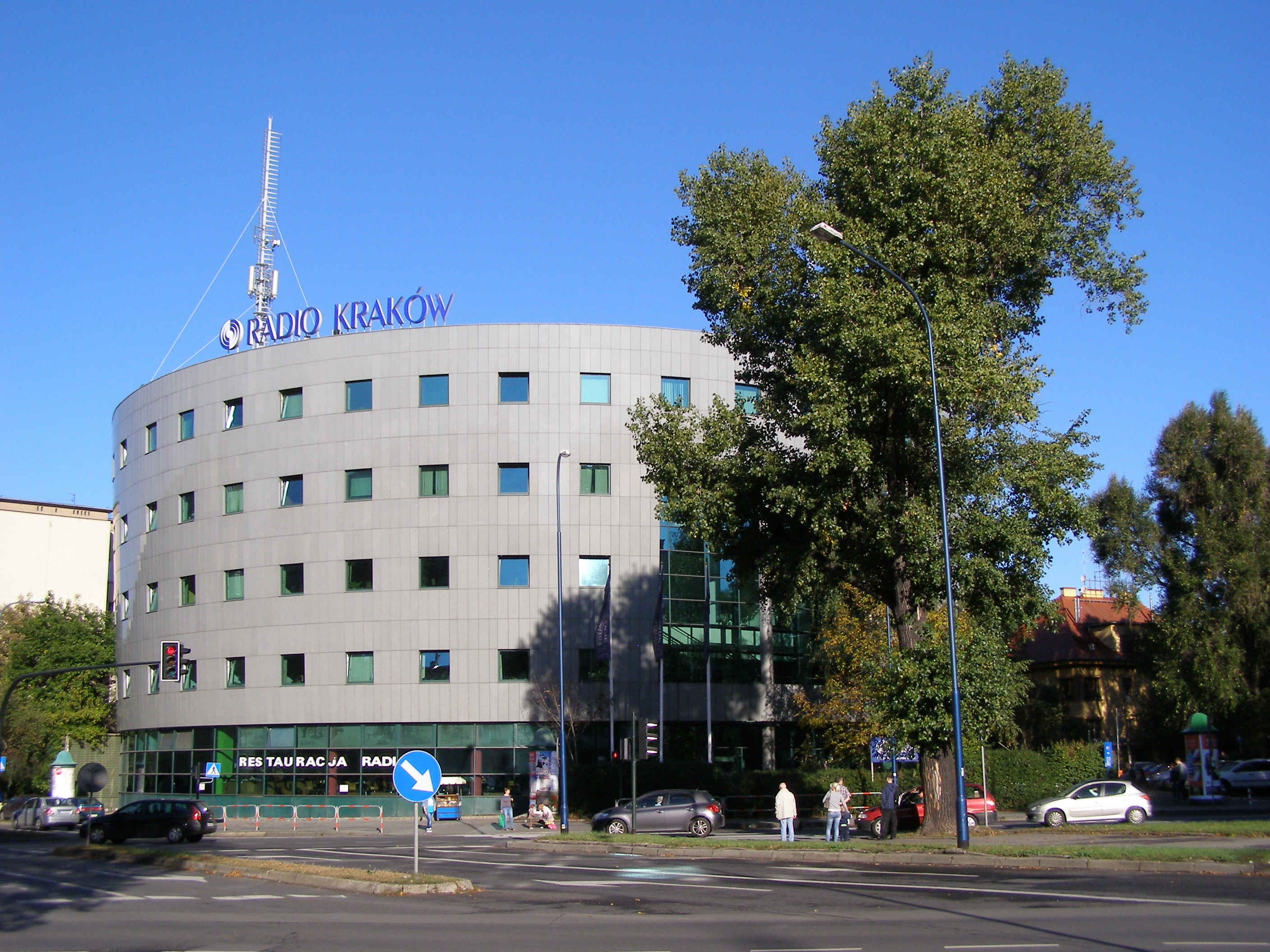 Kraków - Radio Kraków building in Słowackiego av.